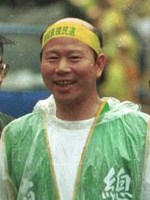 Hsin-liang Hsu at a movement to promote presidential direct election in 1992.Bân-lâm-gú: 1992-nî, Khóo Sìn-liông tī iau-kiû Tsóng-thóng Tit-tsiap Bîn Suán ê iû-hîng. 1992年，許信良佇要求「總統直接民選」的遊行。